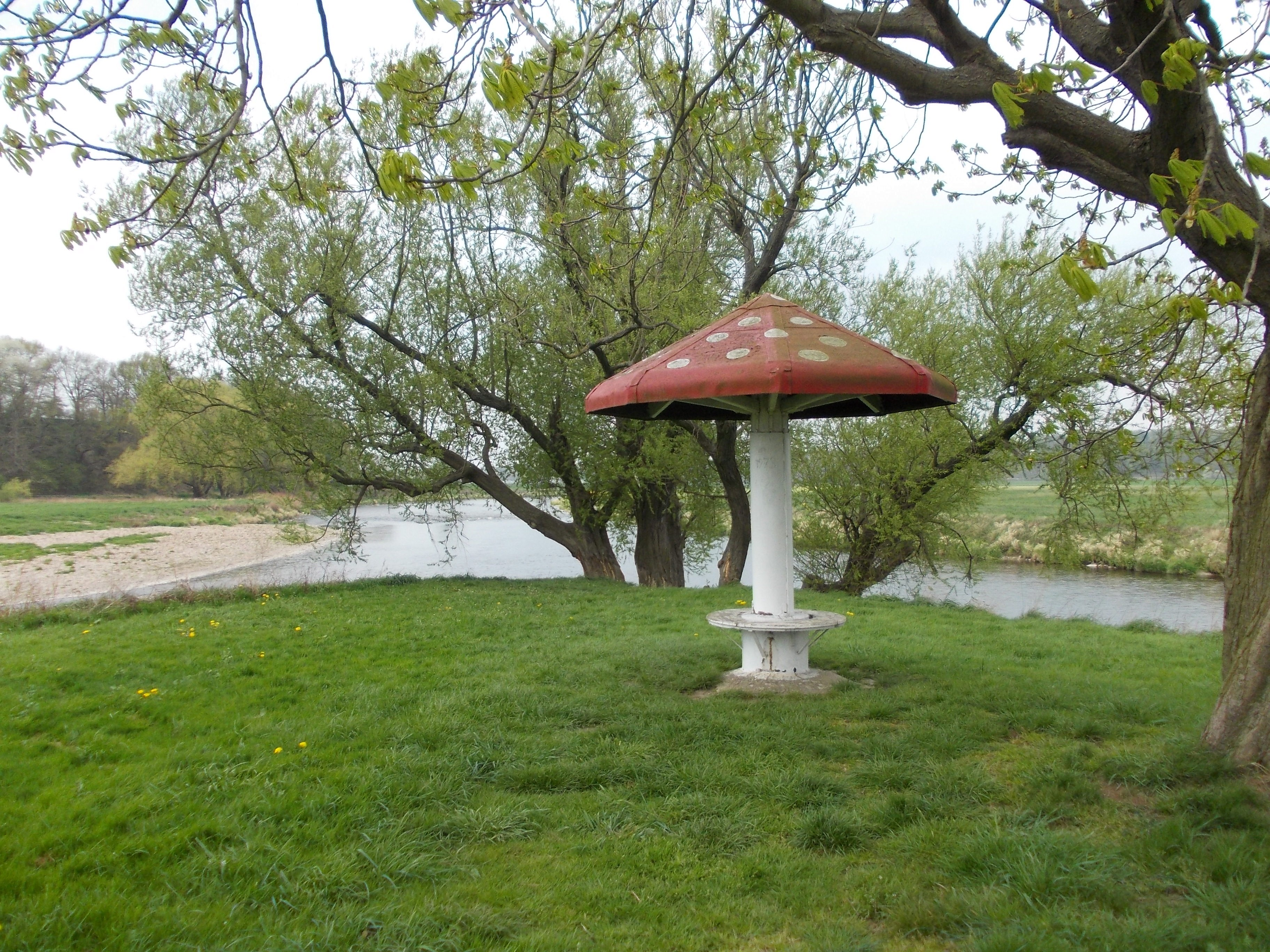 Confluence of Zwickauer Mulde and Freiberger Mulde in Sermuth (Colditz, Leipzig district, Saxony)